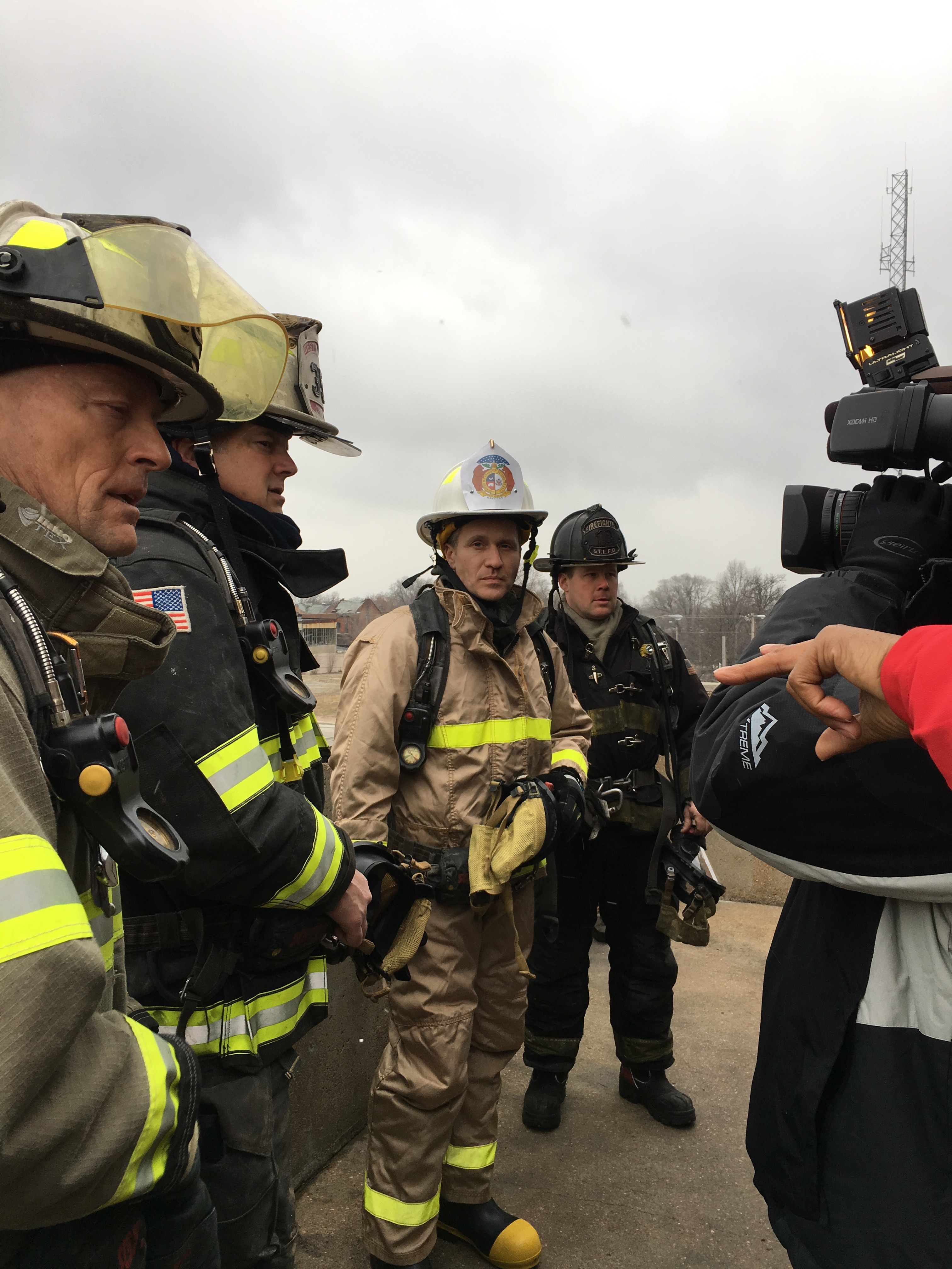 Greitens training with firefighters at the St. Louis Fire Academy in February 2017.